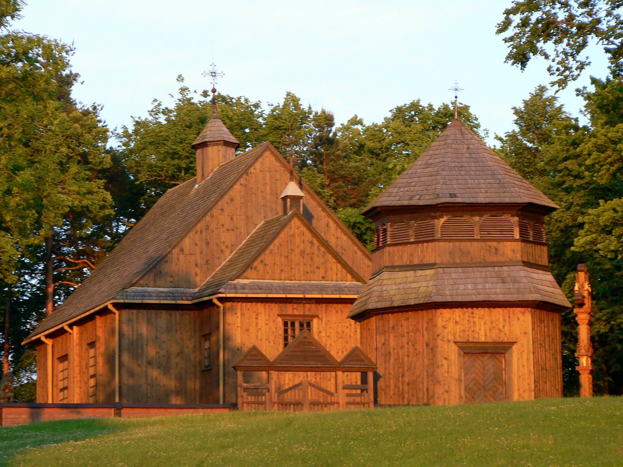 Wooden church in Paluse, Lithuania. Author: Wojsyl, 2005